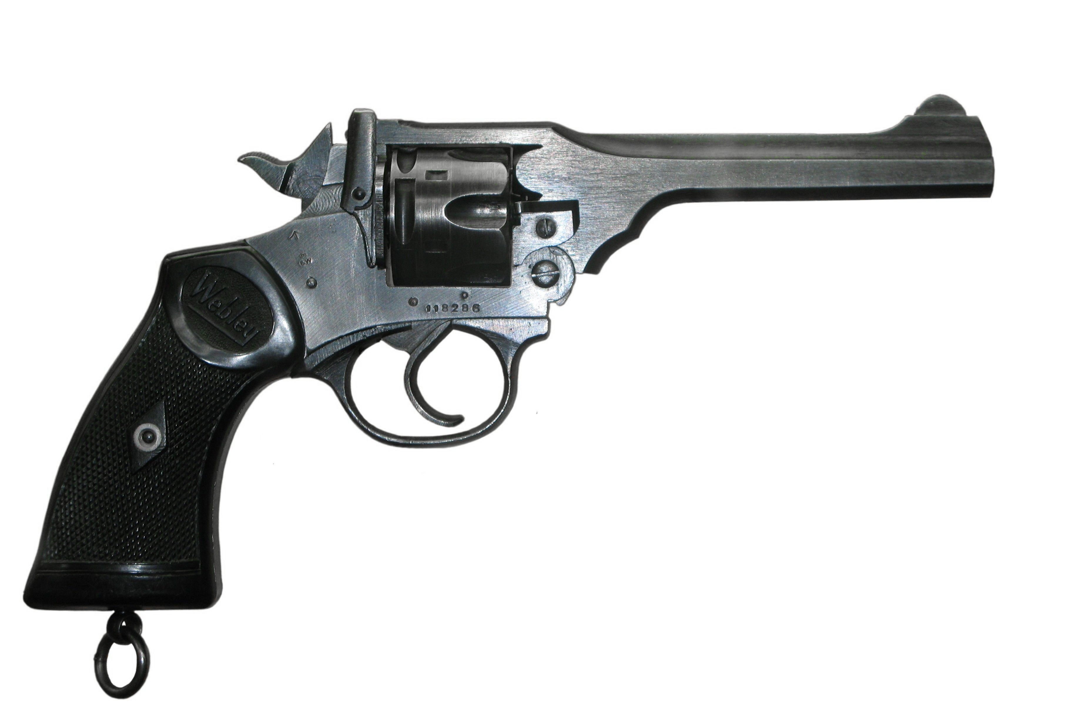 Webley Revolver